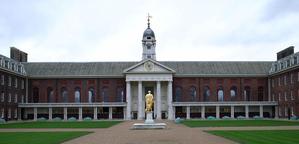 Royal Hospital Chelsea (1681-91)